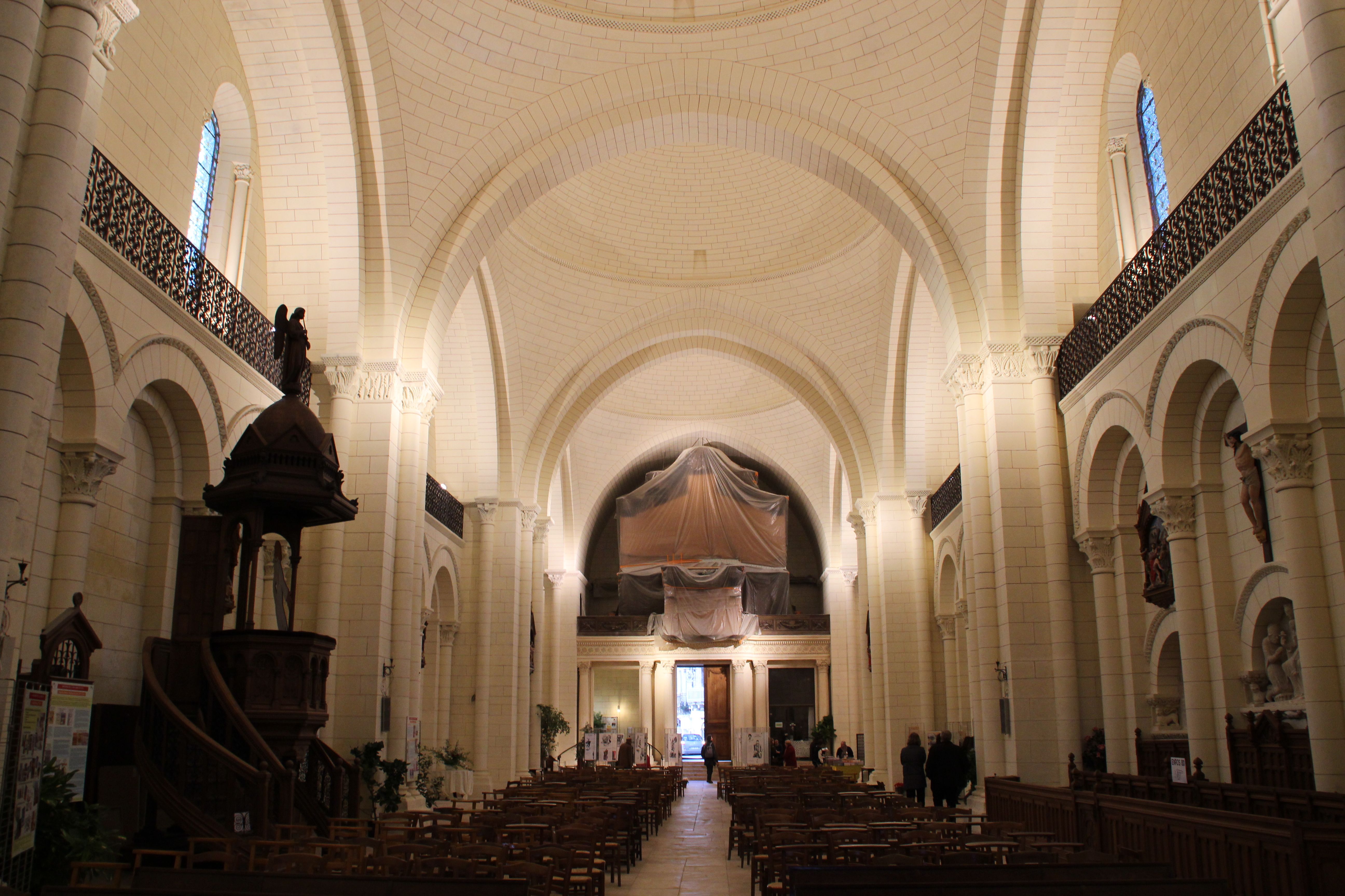 View of the Saint-Pierre d'Angoulême cathedral during the Angoulême International Comics Festival 2013.